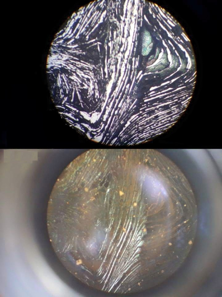 microscope picture of polished section of specularite with metamorphic fibrous